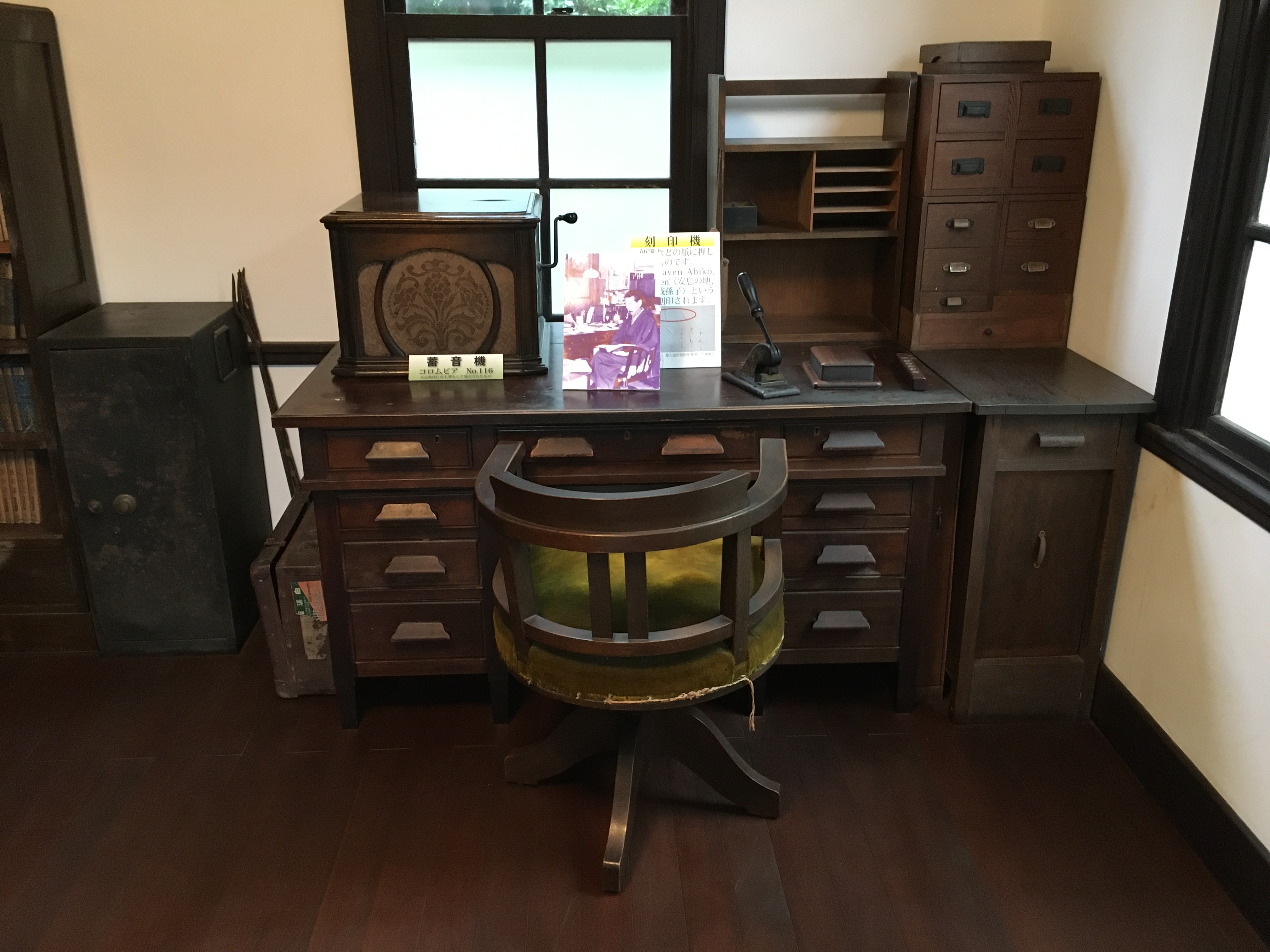 Study of Sojinkan Sugimura Memorial Hall (Abiko, Chiba prefecture of Japan)